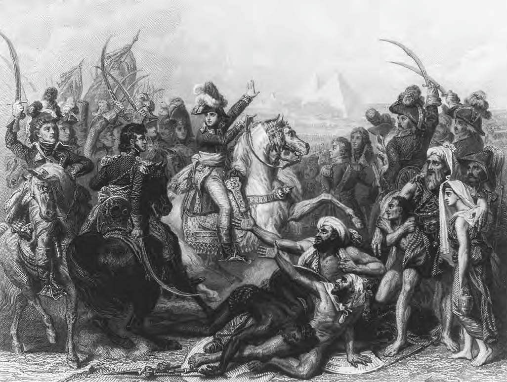 The Battle of the Pyramids July 21, 1798. Employing modern weaponry and tactics against opponents armed and dressed in medieval fashion, Bonaparte defeats the Mamluks during his campaign in the Middle East.